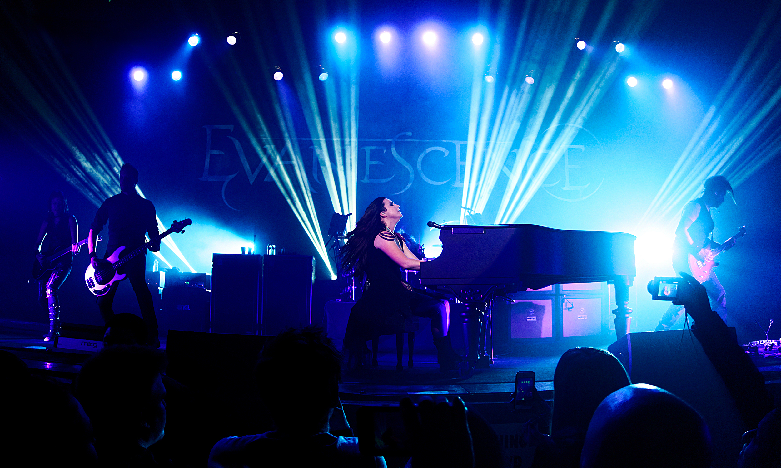 Evanescence performing live at The Wiltern theatre in Los Angeles California on Tuesday November 17th, 2015.